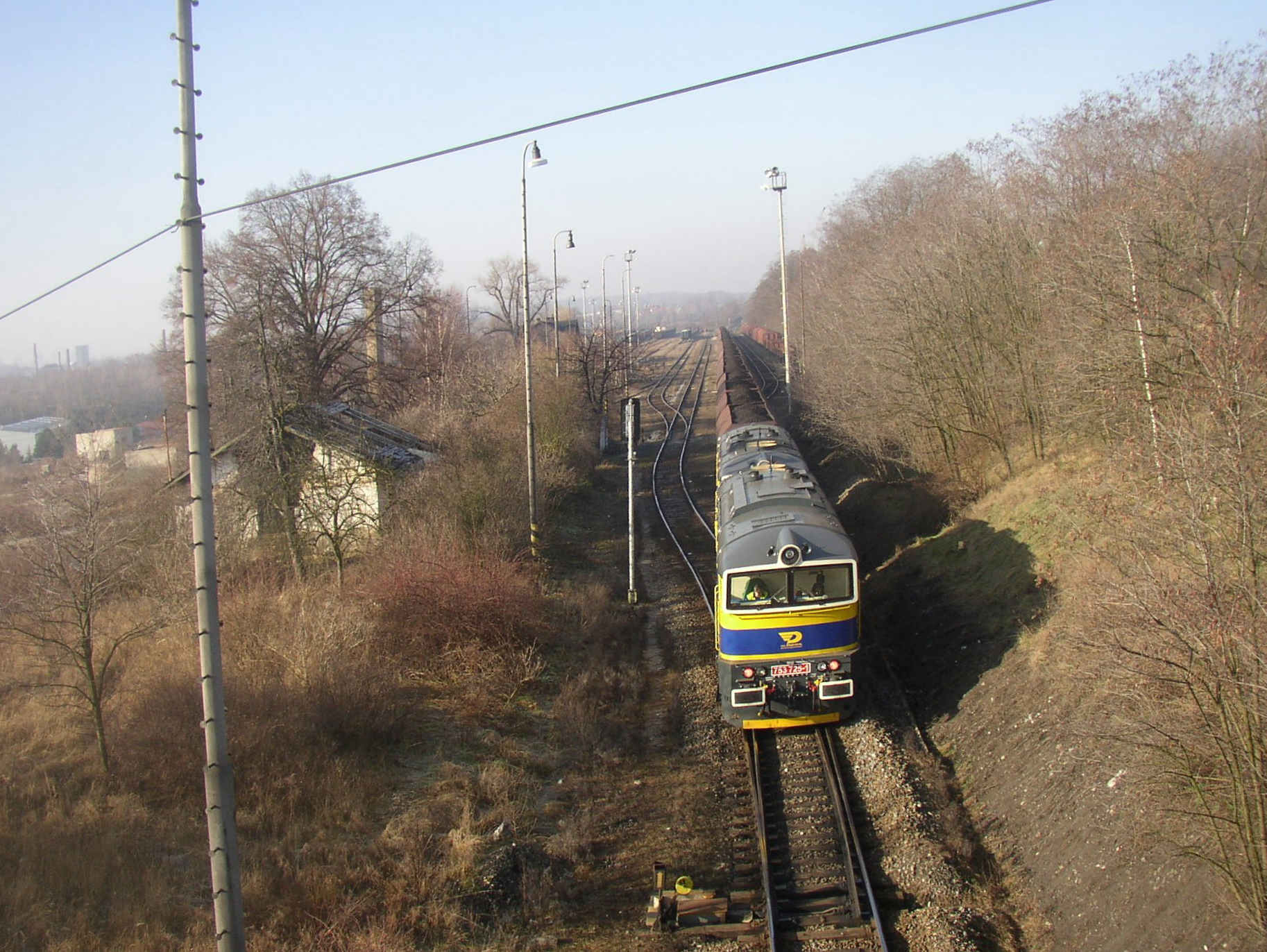 Scheduled freight train with coal from Ledvice for Kladno power plant just has entered Kladno-Dubí railway station on line 093 Kralupy nad Vltavou - Kladno. Coupled Class 753 locomotives in livery of OKD, Doprava company are pushing the tran.